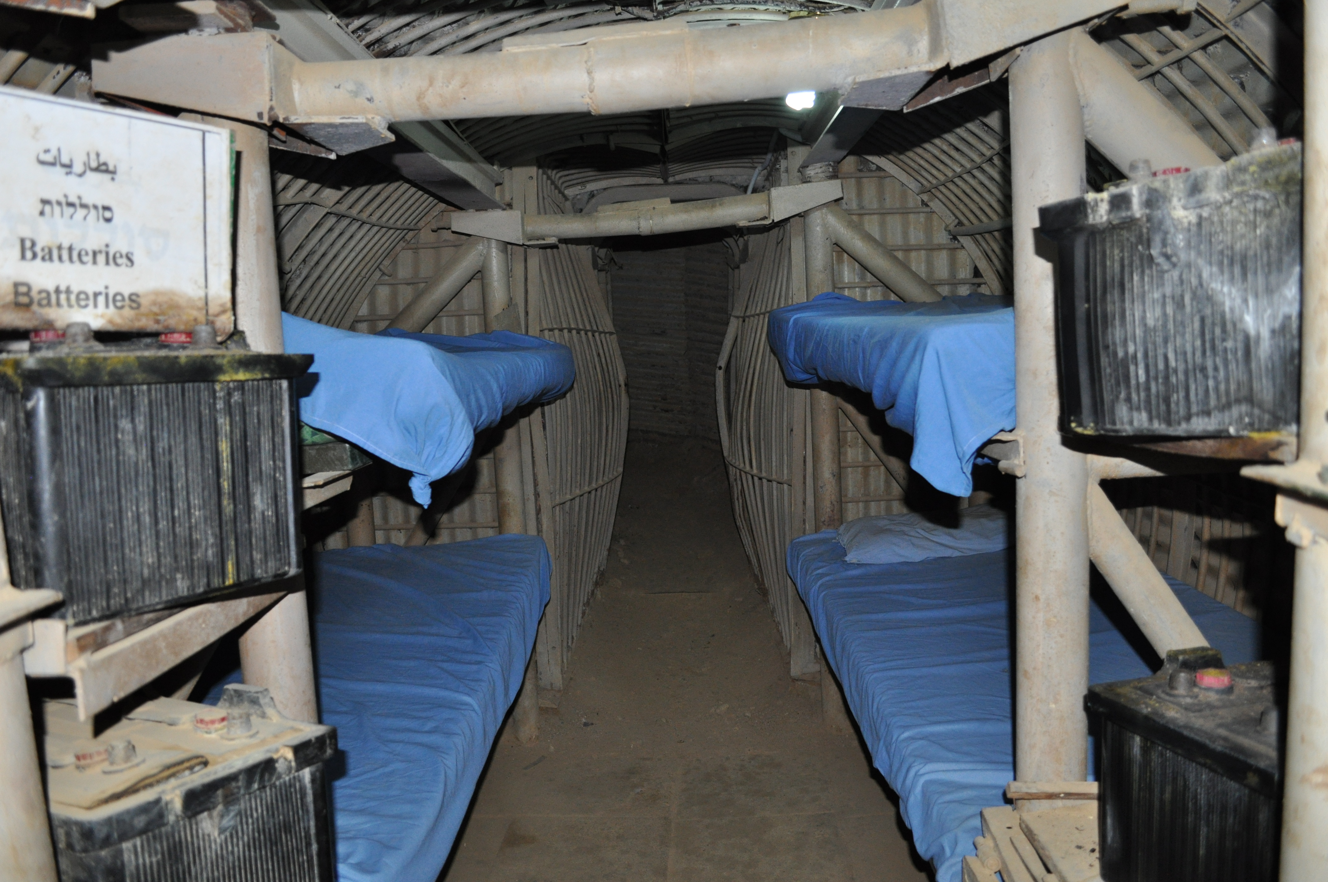 Oyoun Moussa tourist attraction مصرى: مزار عيون موسى السياحي